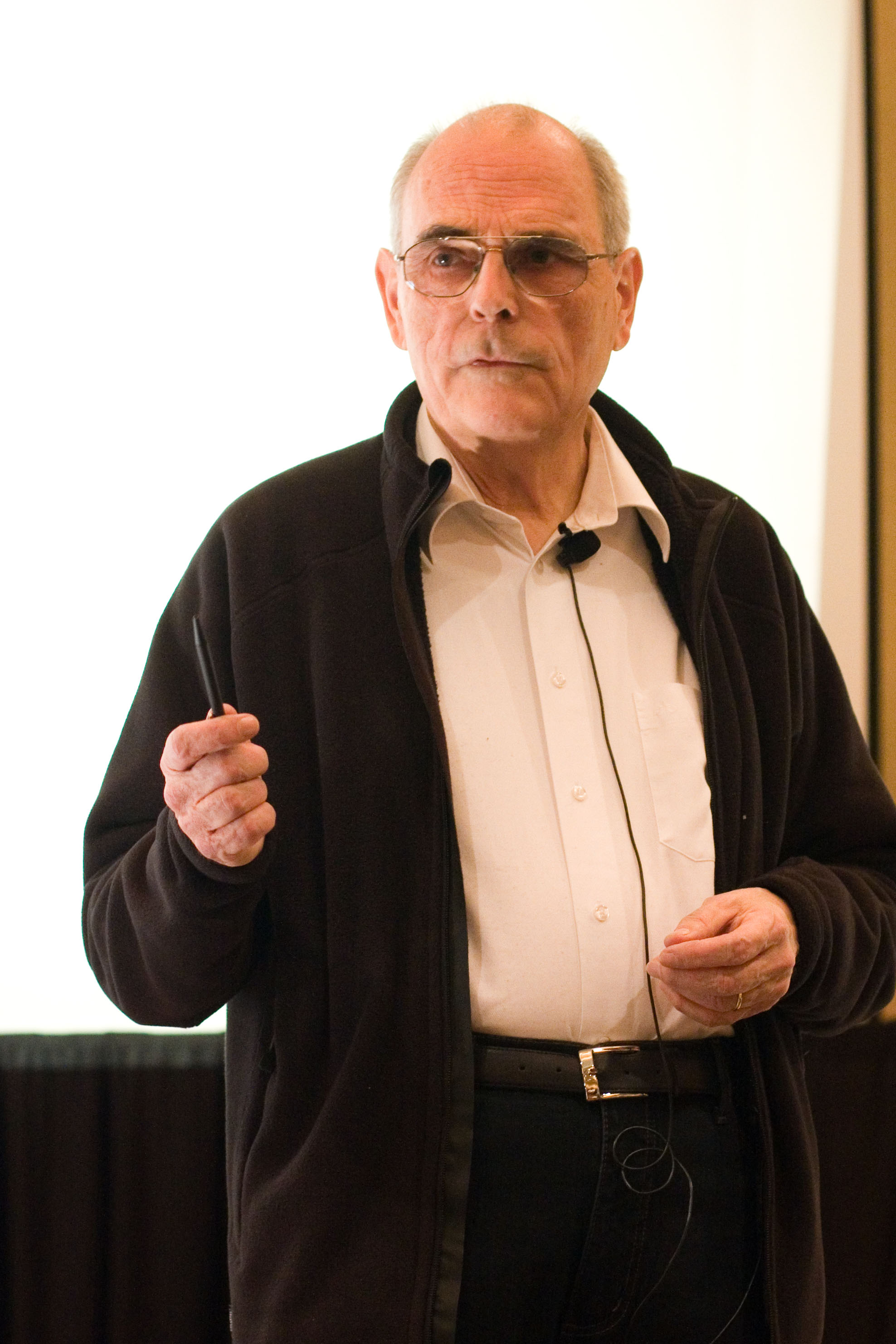 Volker Strassen gives the 2008 Knuth Prize lecture at the 20th ACM-SIAM Symposium on Discrete Algorithms, January 5, 2009, at the New York Downtown Marriott Hotel in New York City.